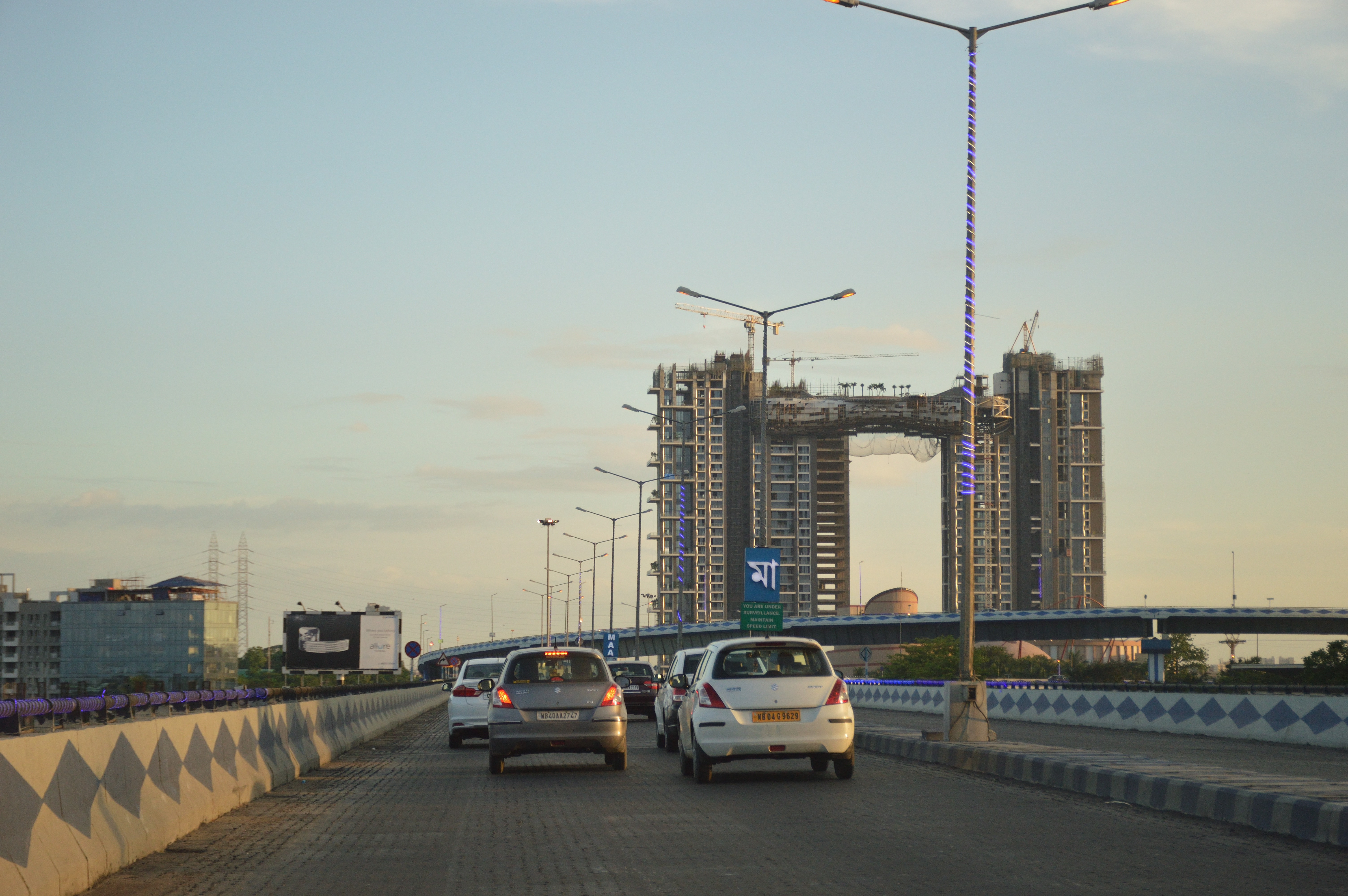 This photograph was taken in Kolkata.